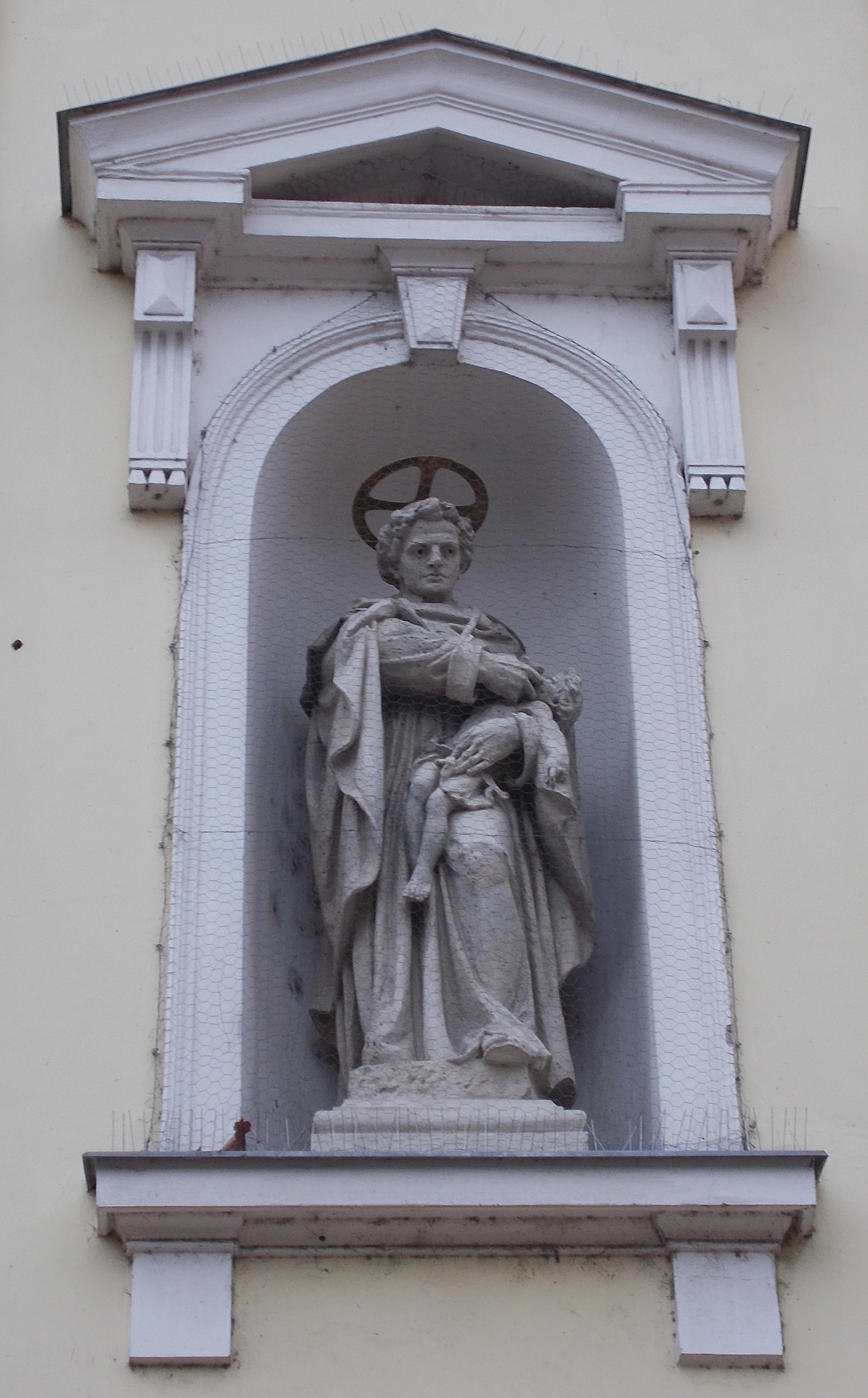 Saint Catherine Church. Above the gates stand (in niches) the Statue of Saint Catherine of Alexandria, Bishop Saint Gellért, Charles Borromeo. - Attila Street, Tabán, Budapest